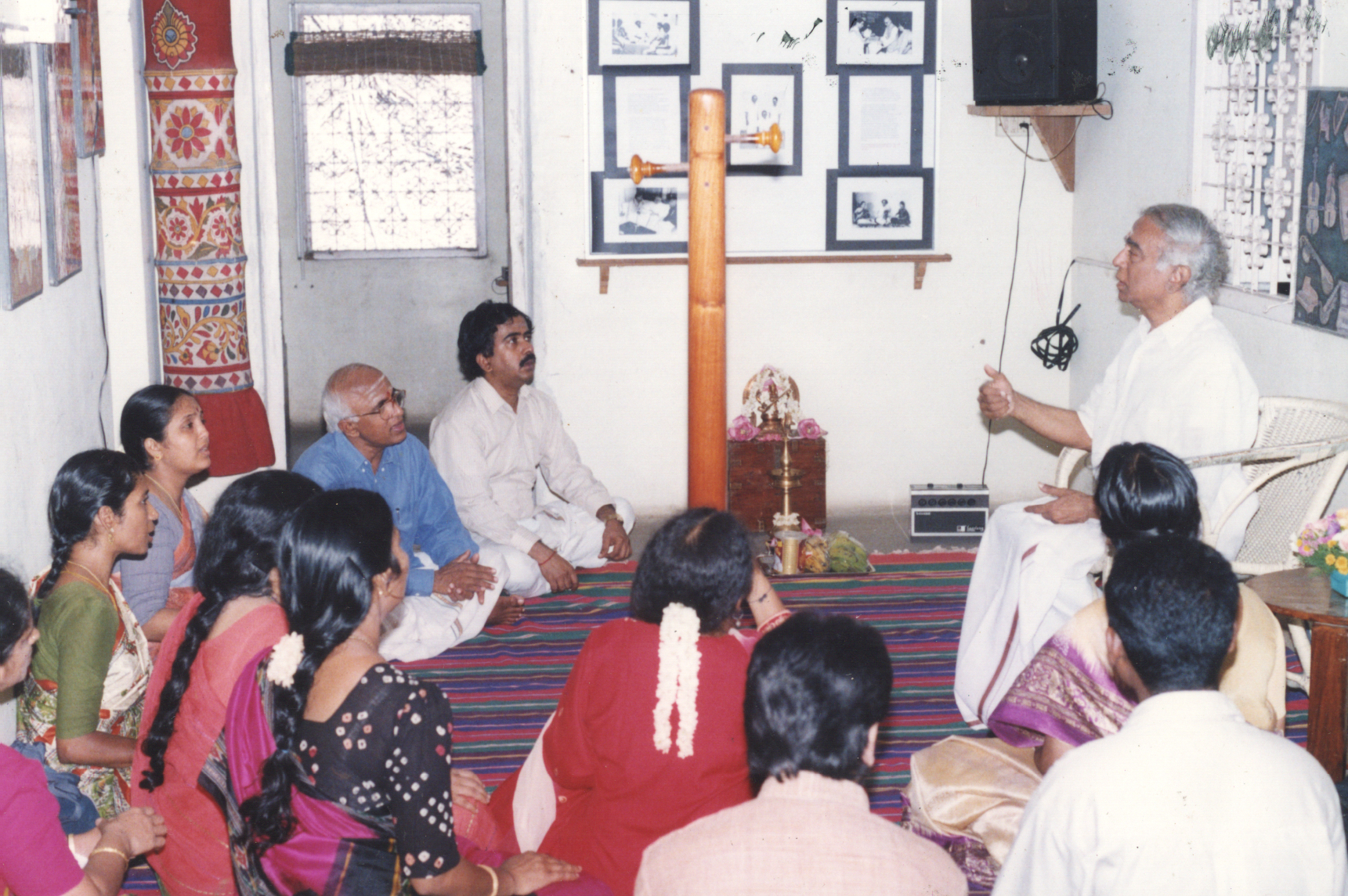 LGJ teaching at Brhaddhvani